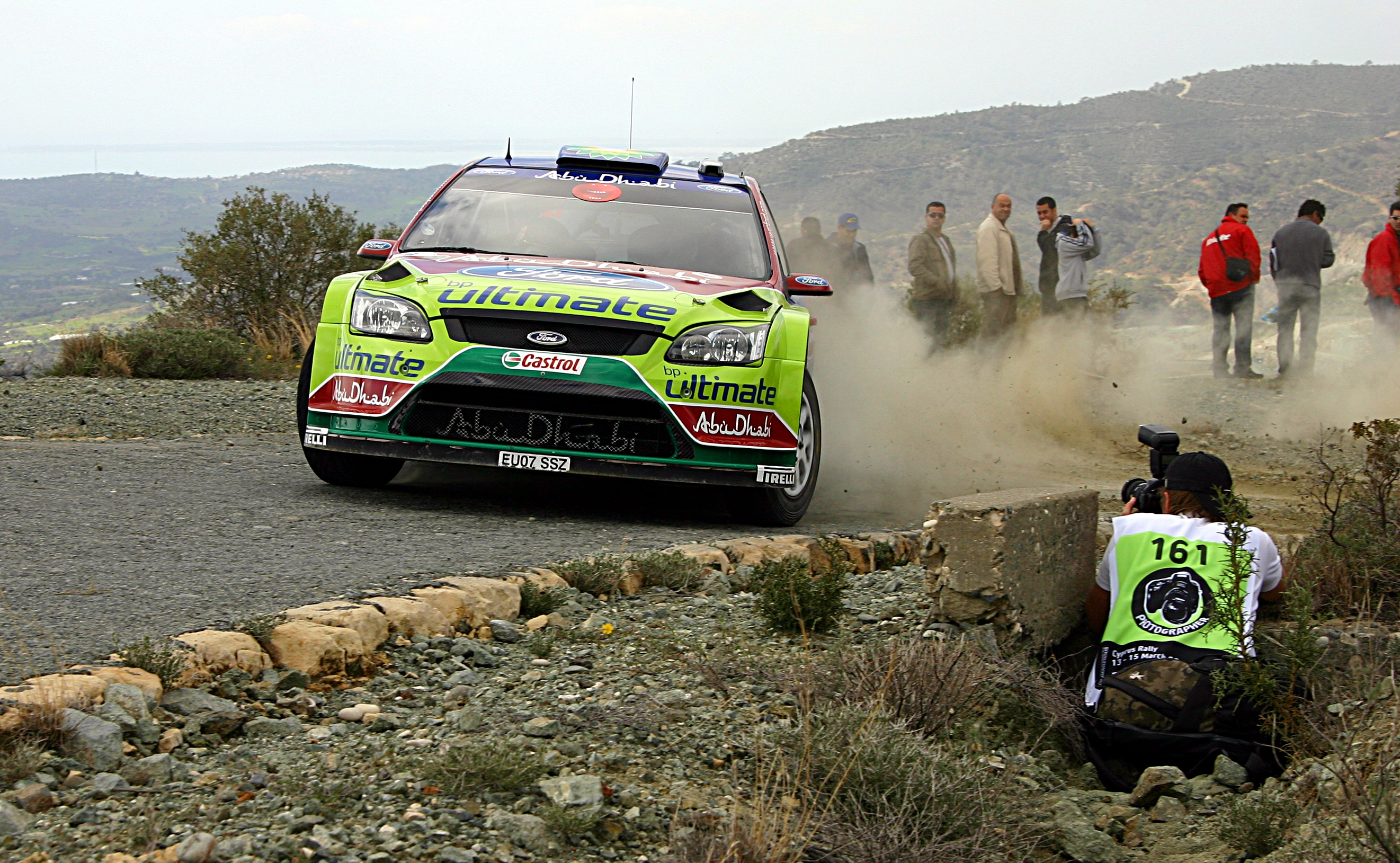 Khalid al-Qassimi driving his Ford Focus RS WRC 08 during the shakedown of the 2009 Cyprus Rally.